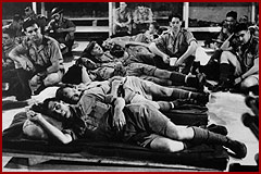 Sleep in Fordham's Accommodation are underground parallel chambers within the Rock of Gibraltar built during the Second World War.